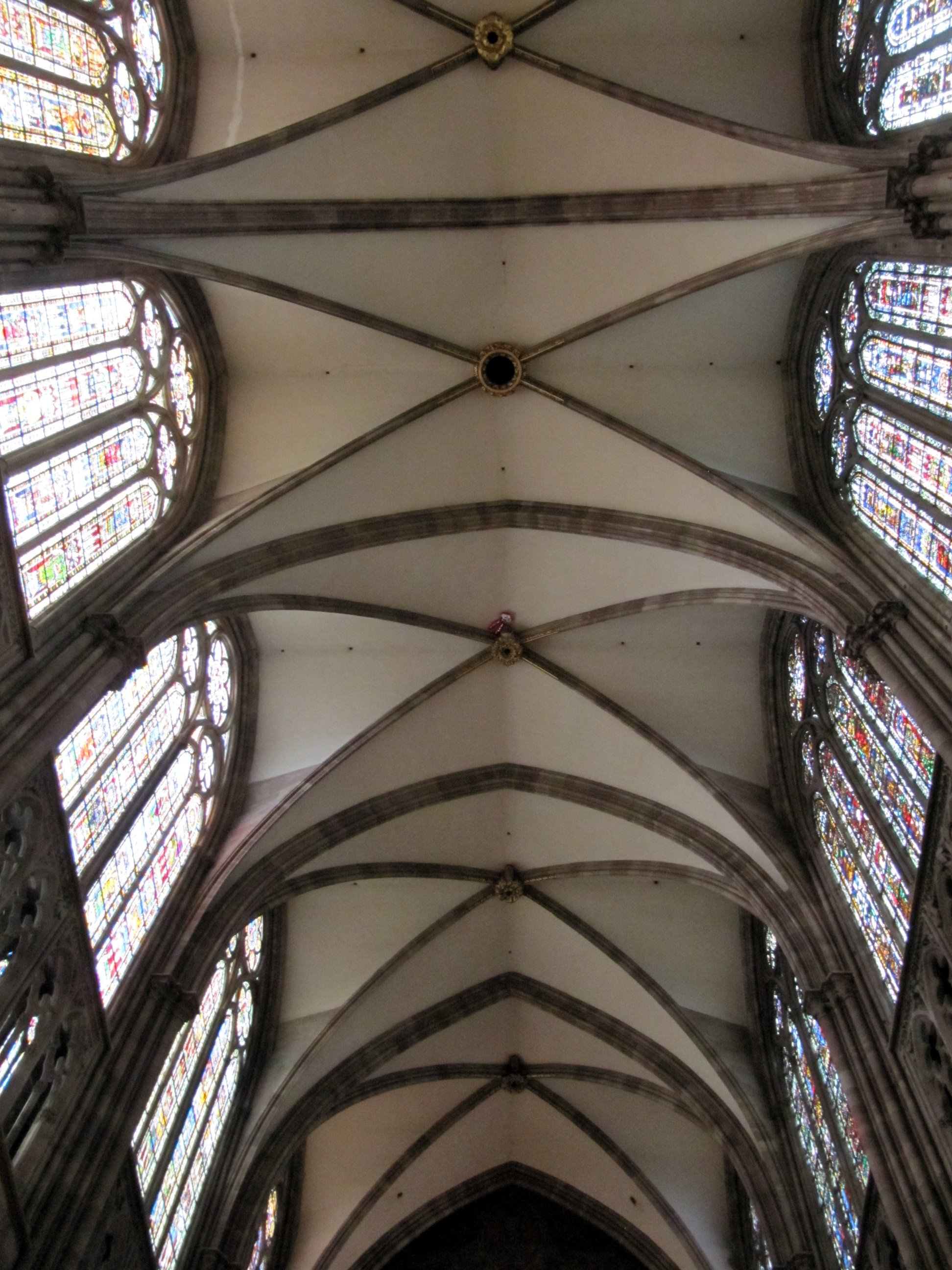 Holy red rabbit watching over you...